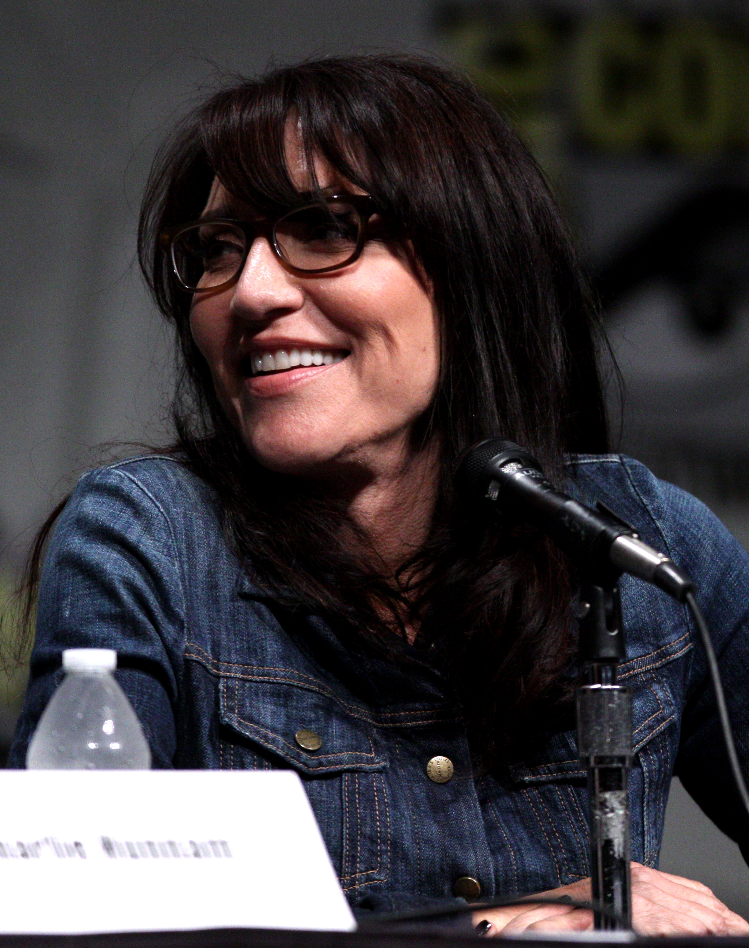 Katey Sagal at the 2012 Comic-Con in San Diego.